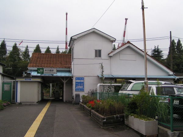 The Outlook of Bentenbashi Station